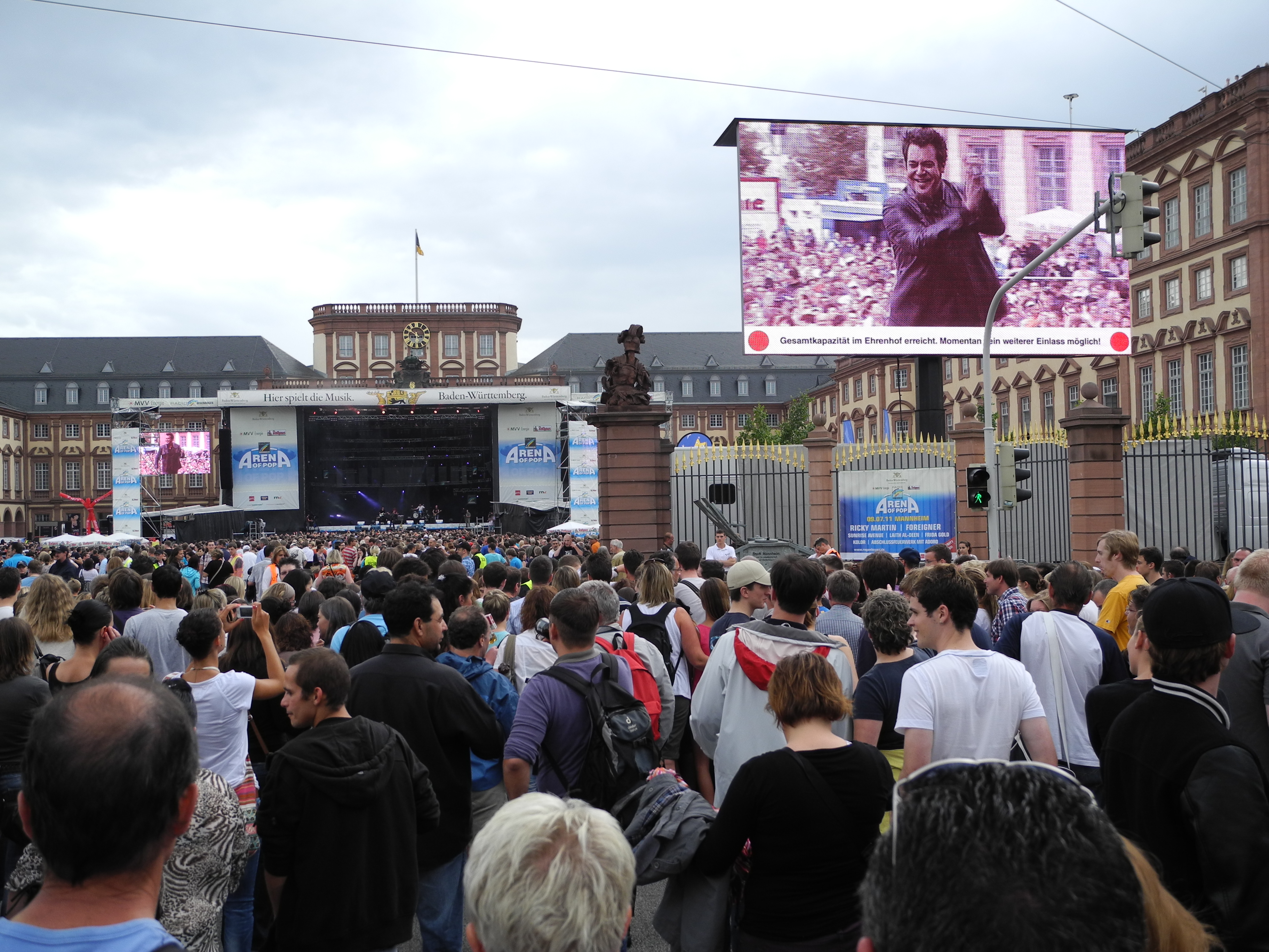 Arena of Pop 2011, Mannheim, Laith Al-Deen on Stage